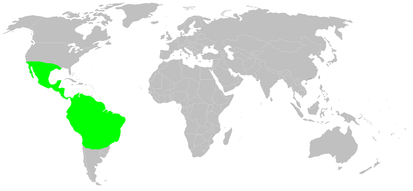 Distribution of the tarantula-genus Aphonopelma